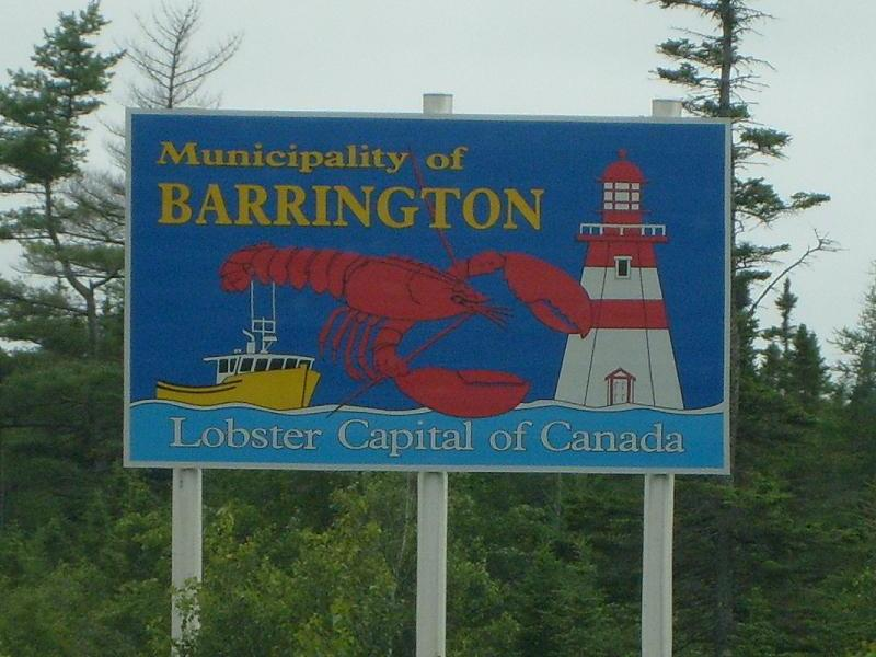 The welcoming sign for Barrington, Nova Scotia